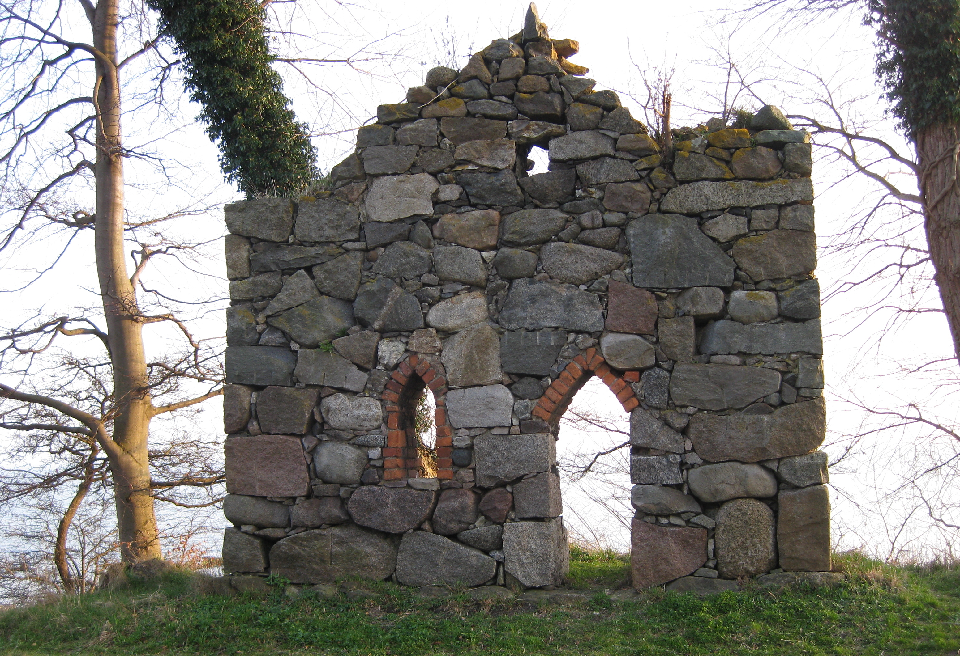 The fake ruin in Hörte, Skåne, Sweden. It was built in 1907 as a ruin and has never been part of an actual building.